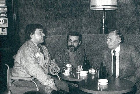 From left: Wojciech Soporek (journalist), Marek Nowakowski (writer) & Kazimierz Górski (football coach) at the Victoria Hotel, Warsaw, Poland, 1985 - photo by Bogdan Nastula